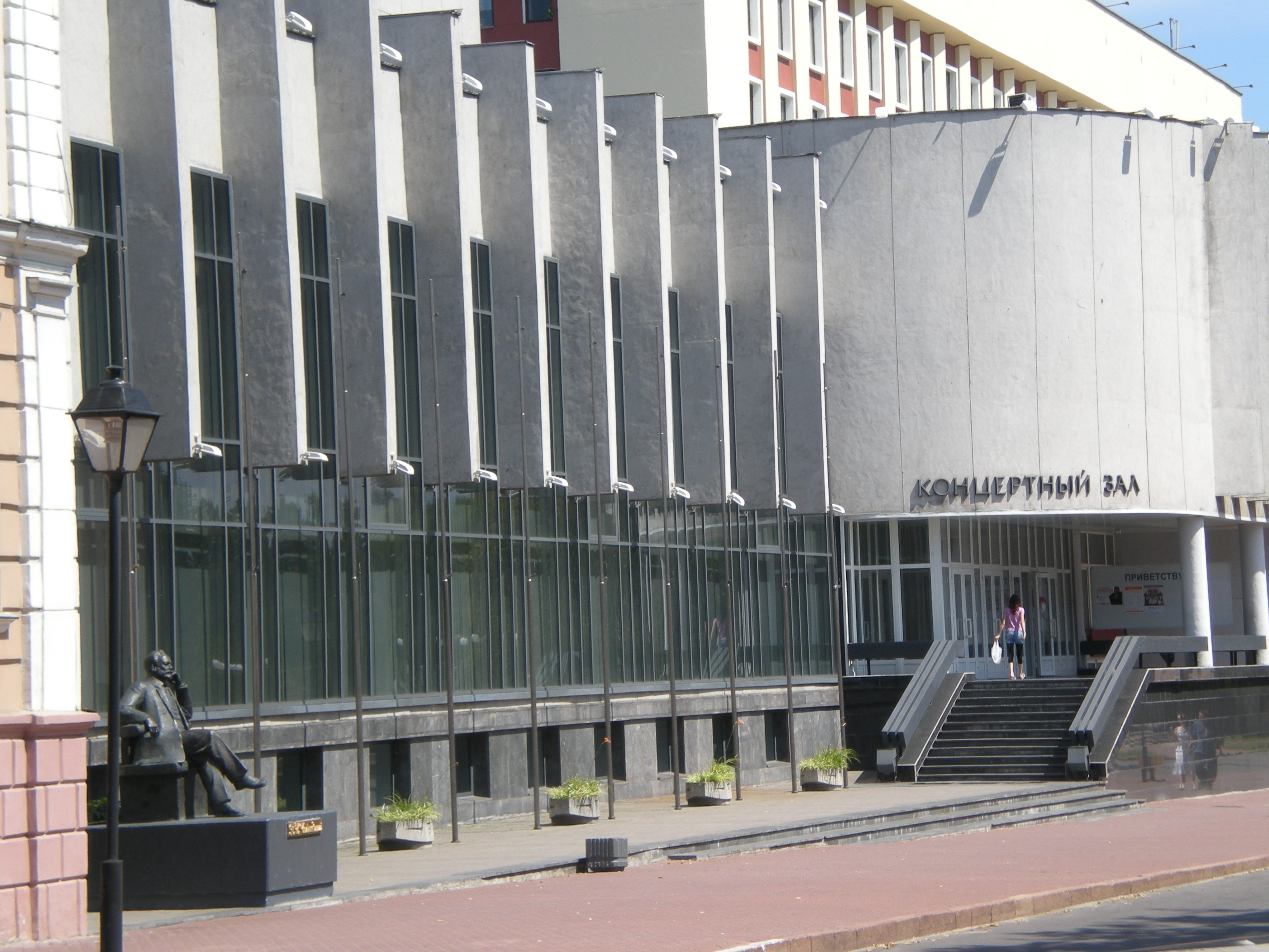 Concert Hall in Gomel